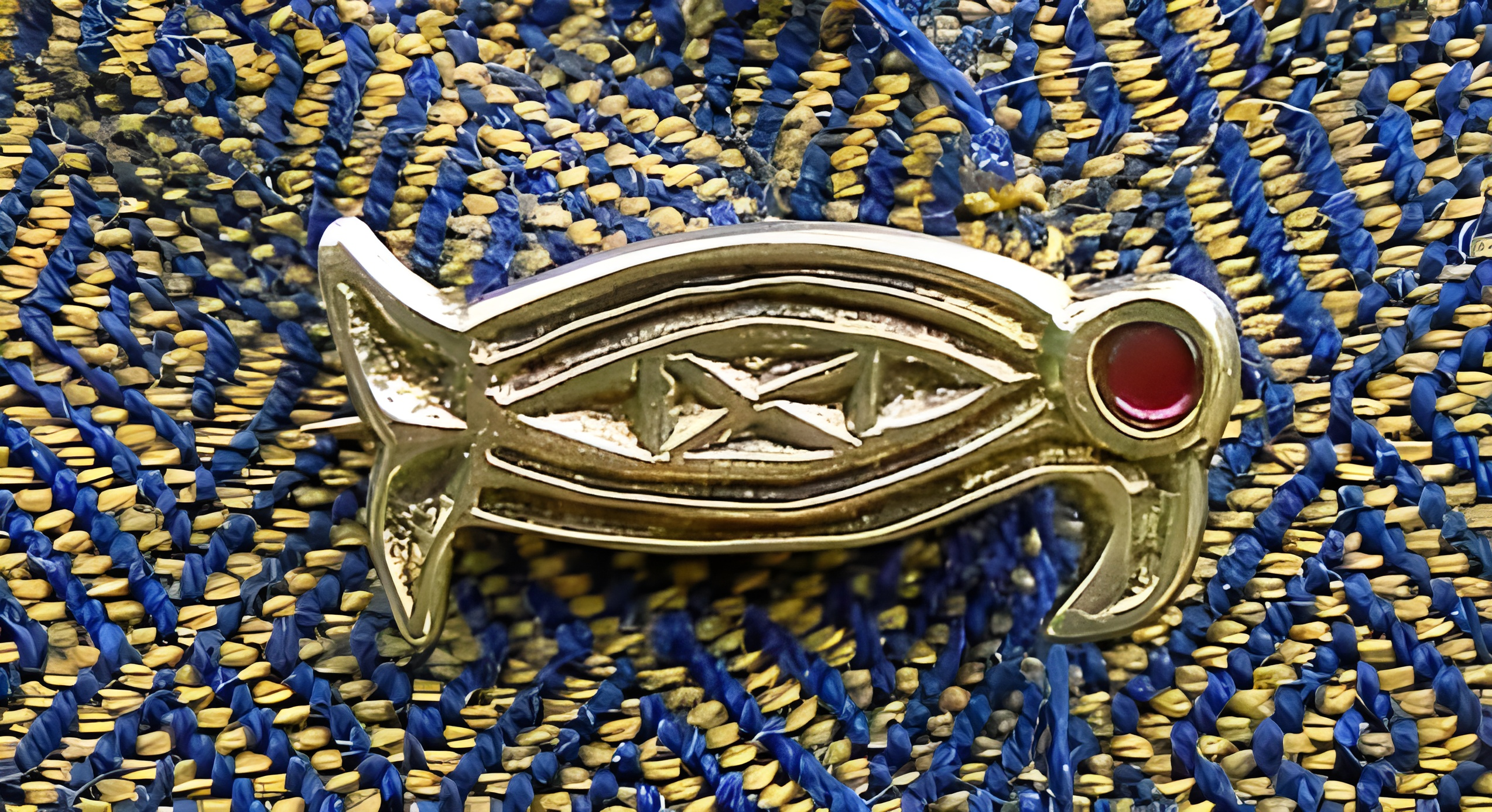 replica of a birdshaped fibula from Aupitz, grave 4, around 530 AD